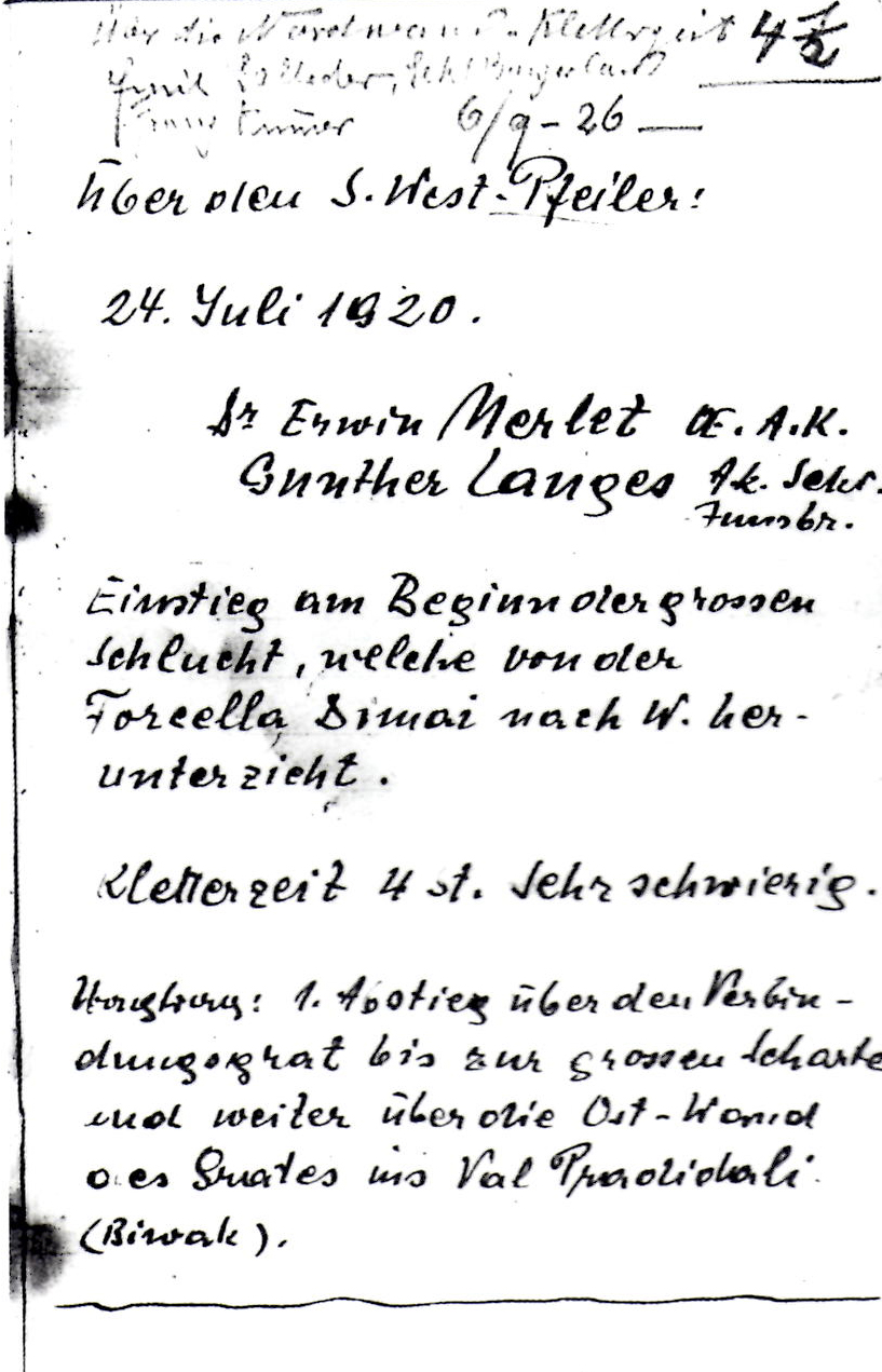 summit log of Pala di San Martino with the description of the first ascent of Gran Pilastro by Erwin Merlet, 1920